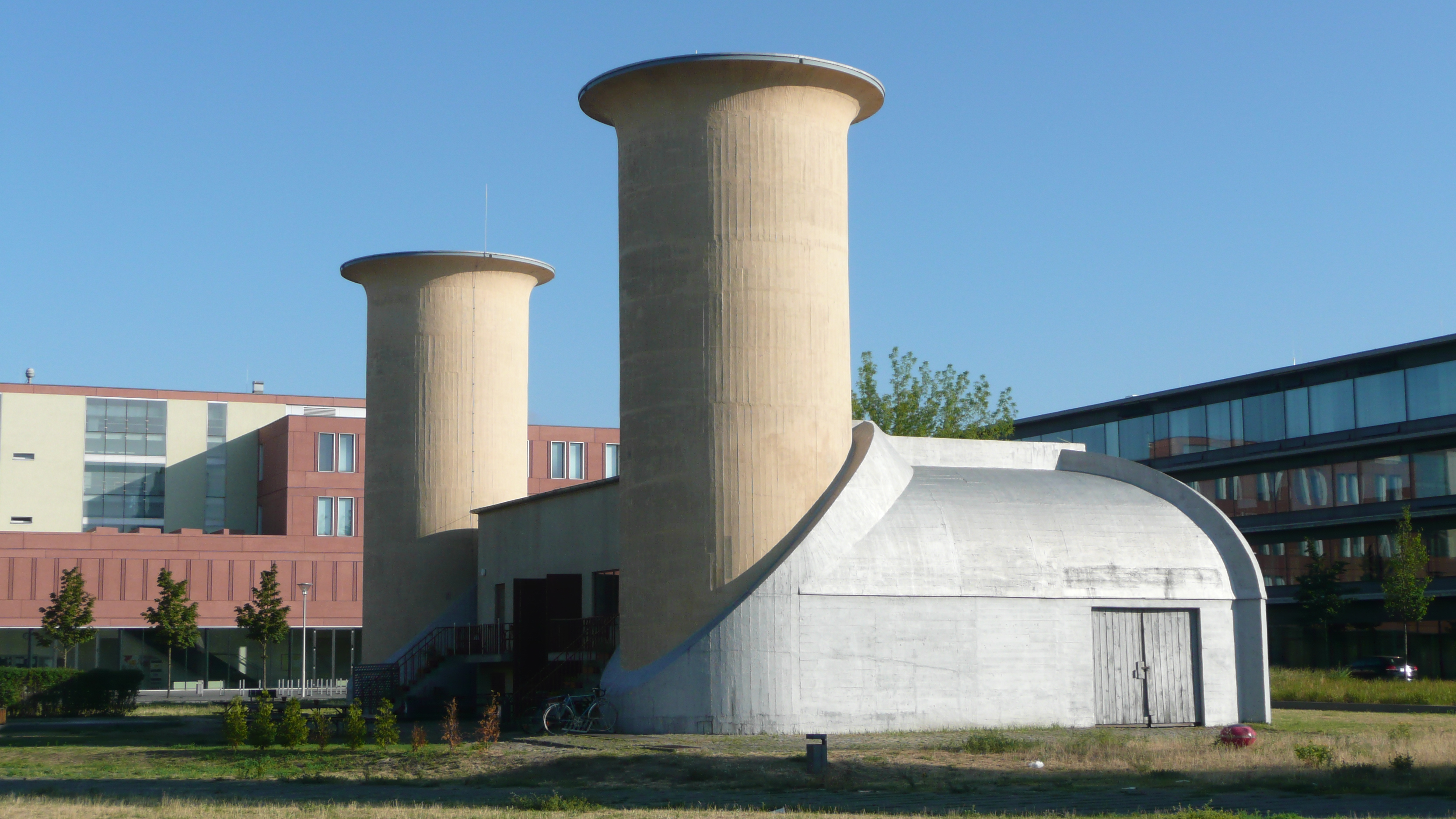 Aerodynamic park - Technical monuments - part of the technology park Berlin-Adlershof